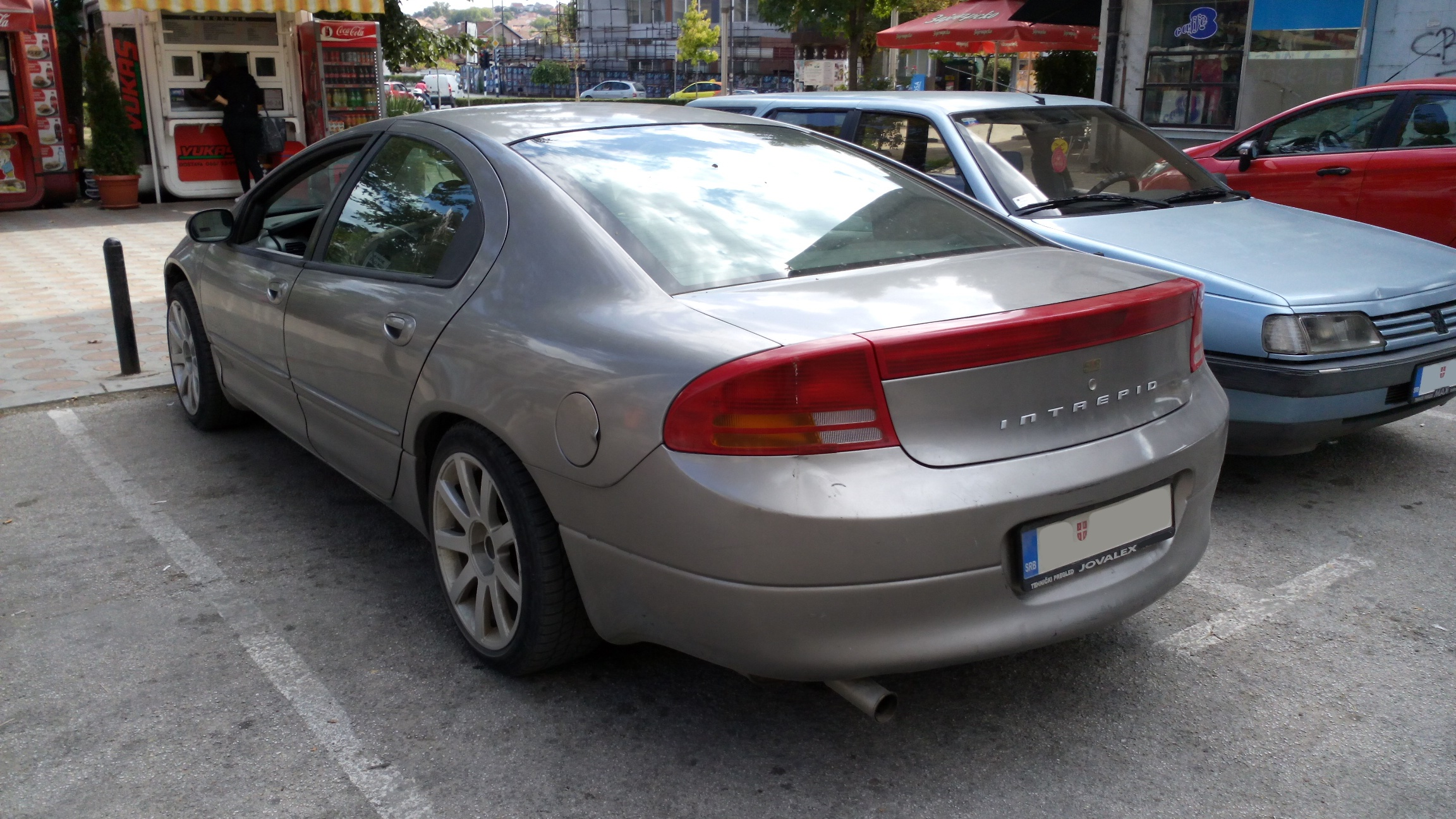 Dodge Intrepid in Kragujevac, Serbia